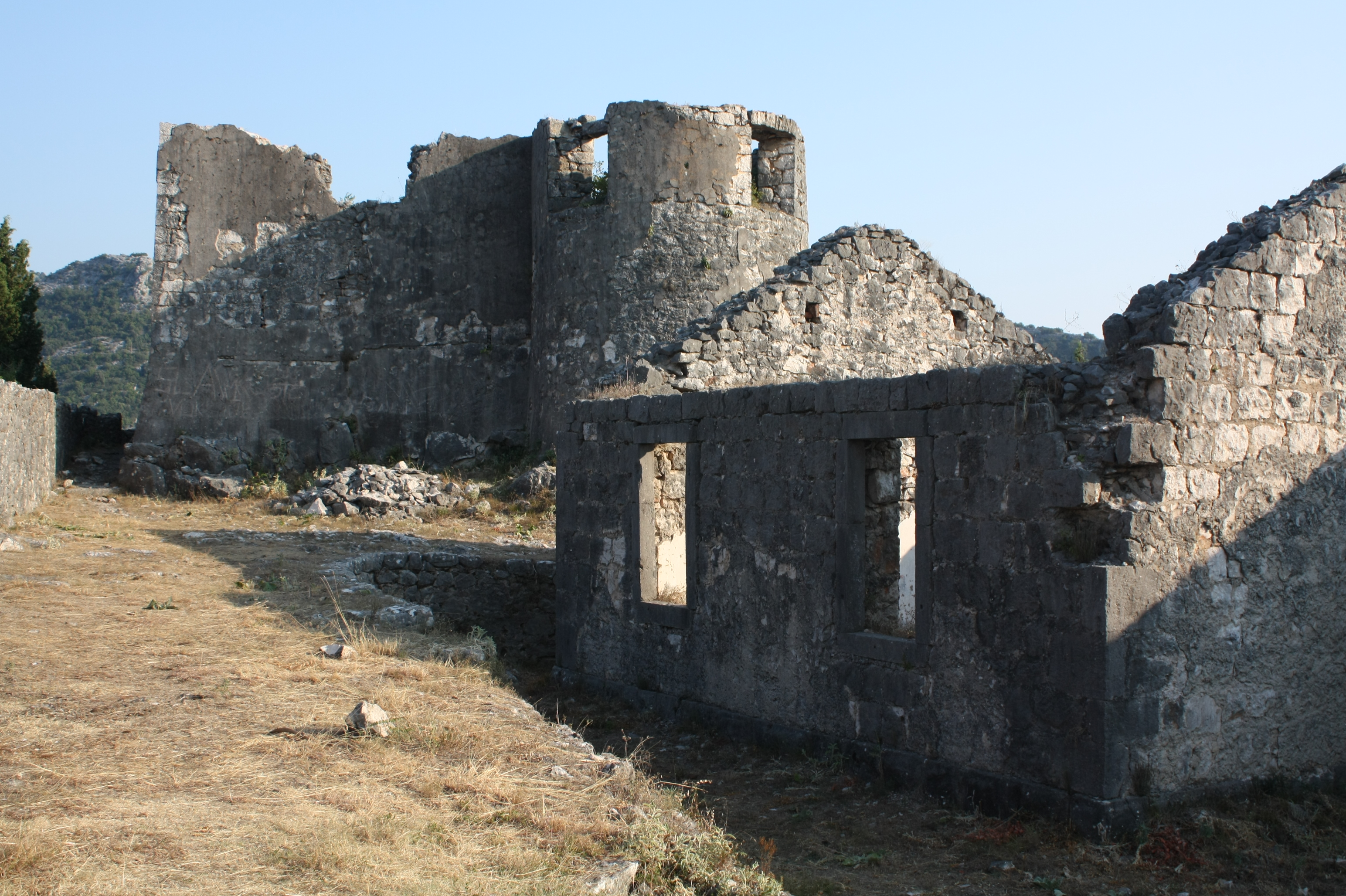 Besac castle above Virpazar, Montenegro